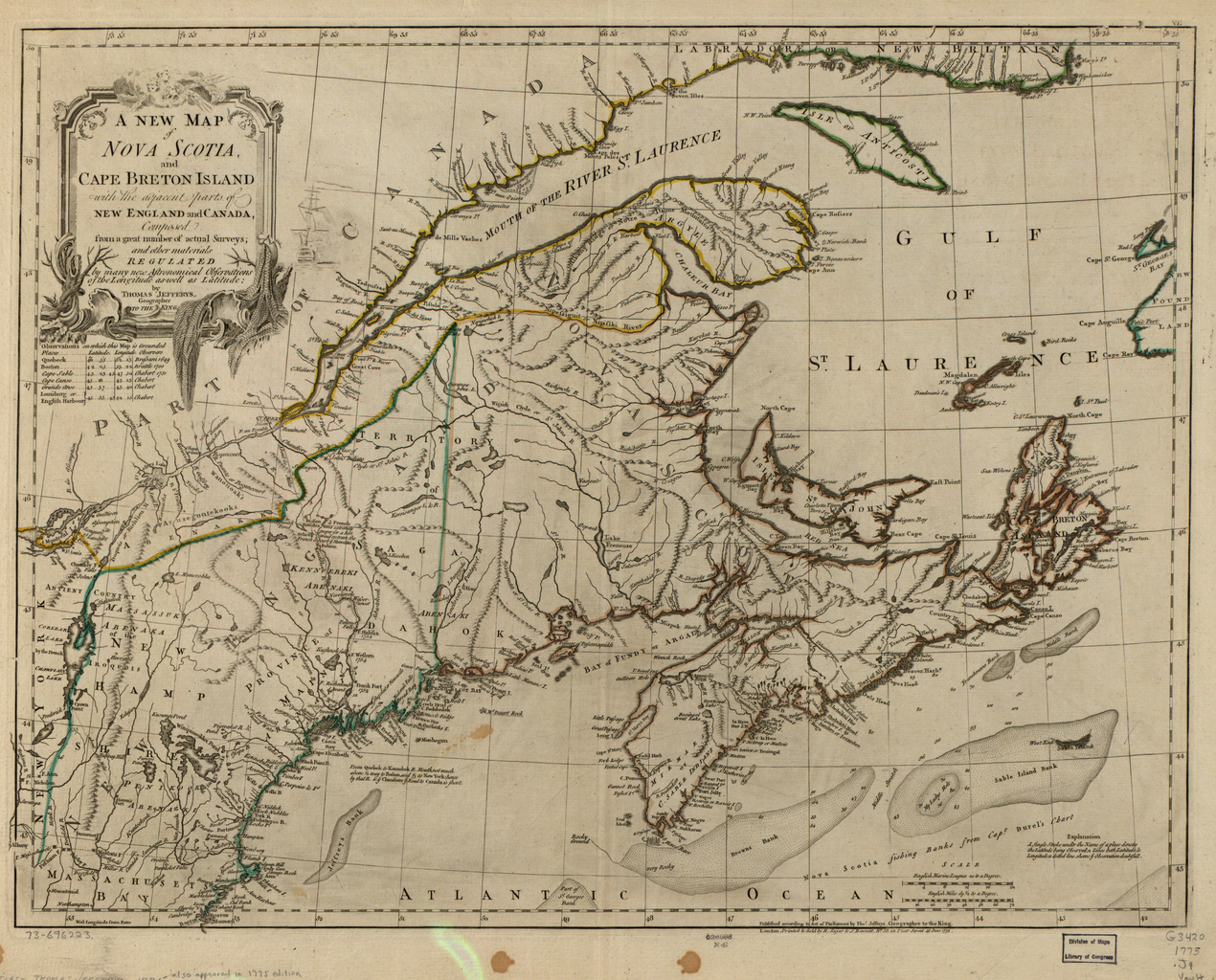 Thomas Jefferys (1710-71) was a royal geographer to King George III and a London publisher of maps. He is well known for his maps of North America, produced to meet commercial demand, but also to support British territorial claims against the French. The period from 1748-63 saw fierce global competition between England and France, culminating in the Seven Years' War, which produced a high demand for maps of the contested territories. This map presents Nova Scotia and Cape Breton Island in the wake of the “great upheaval,” when the British forcibly removed more than 7,000 French Acadians from their farms and homes along the coast of the Bay of Fundy. Following the war, Jefferys attempted to exploit the market for detailed survey maps of the colonial English counties, but the expenses involved threw him into bankruptcy in 1766. He went into partnership with publisher Robert Sayer to salvage his work, and after Jefferys’ death, Sayer forged a new partnership with John Bennett and used Jefferys’ plates to publish The American Atlas, in which this map appeared. Atlantic Coast (North America); Maritime Provinces; New England